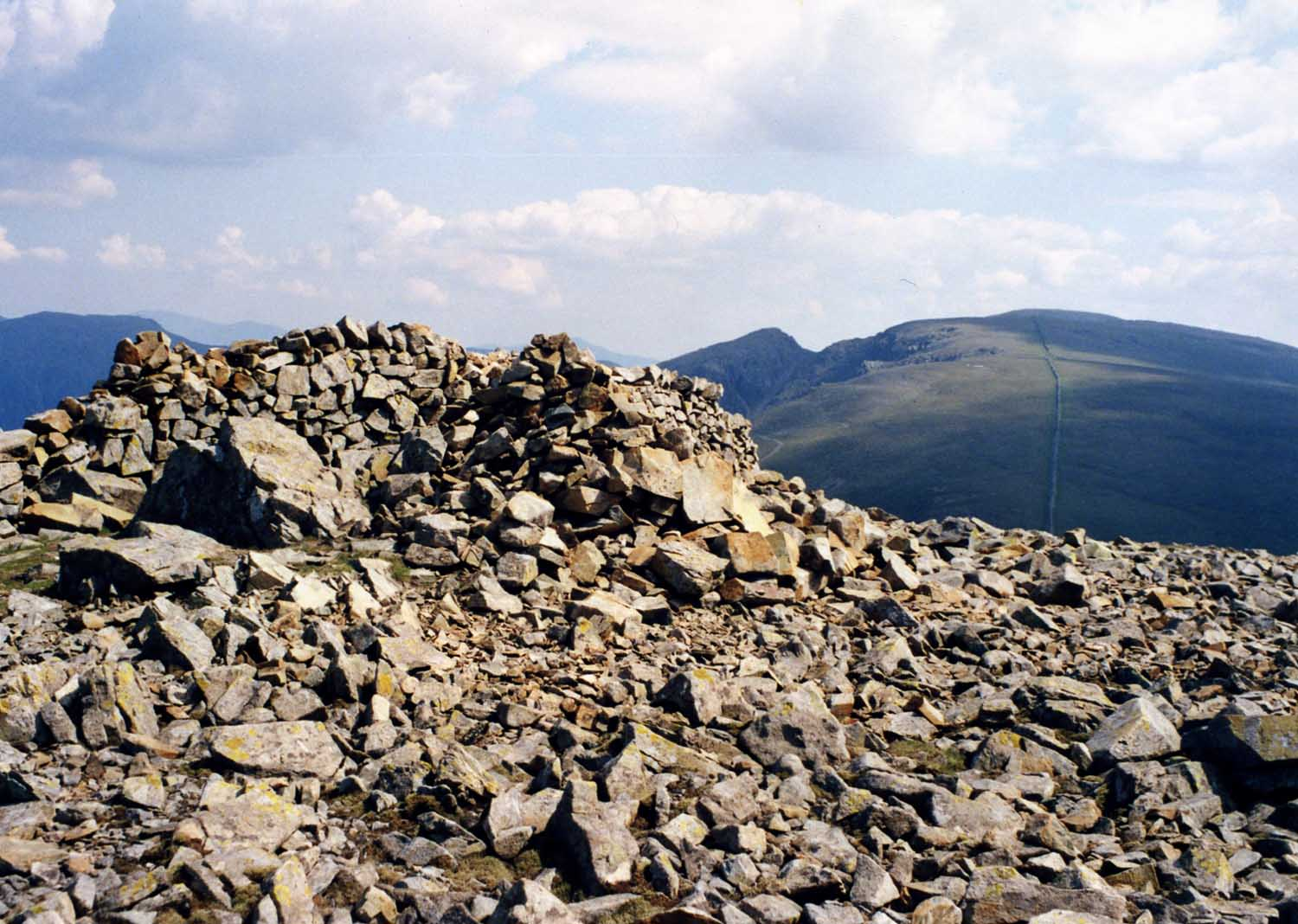 Personal picture taken by Mick Knapton